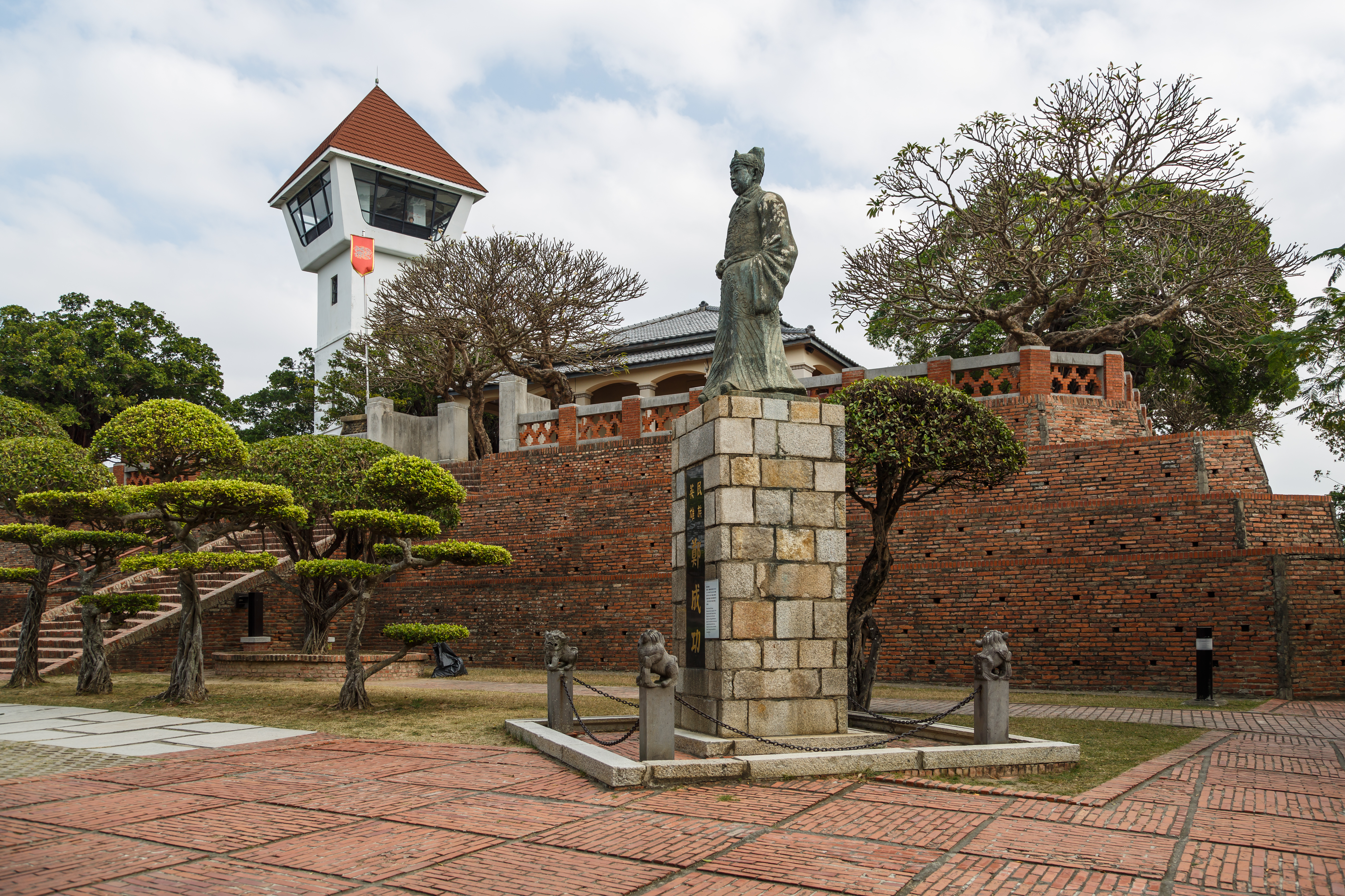 An Ping, Tainan, Taiwan: Statue of military leader Koxinga in the former Dutch fortification "Fort Zeelandia".